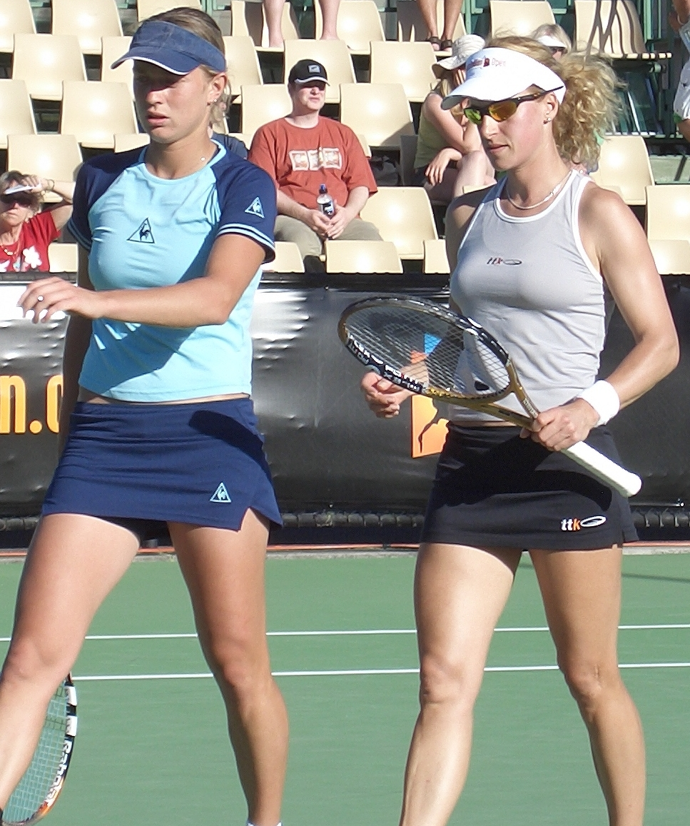 Maret Ani (left) and Andreea Vanc played doubles together in the 2006 Australian Open.